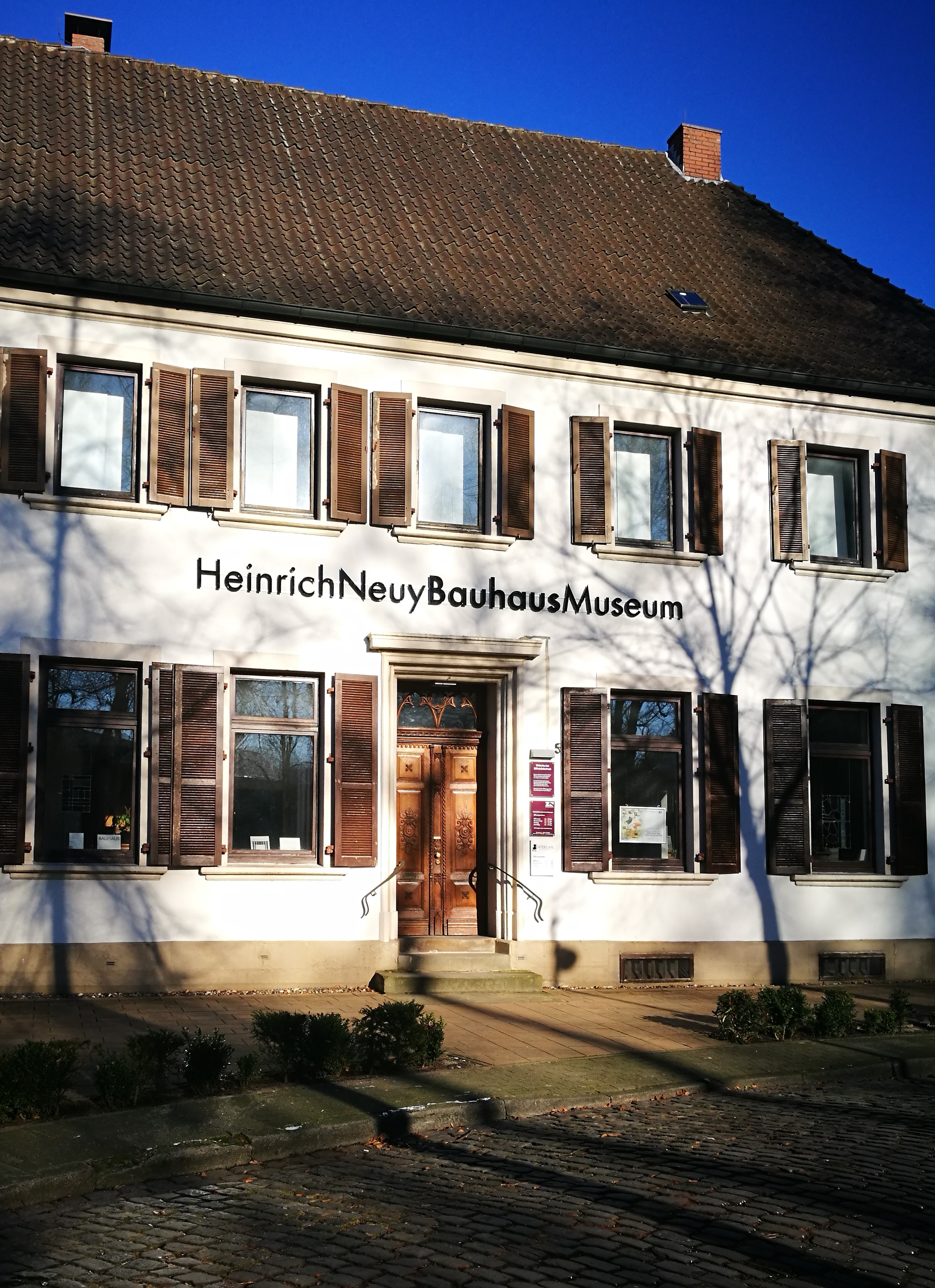 Heinrich Neuy Bauhaus Museum Steinfurt-Borghorst, Germany